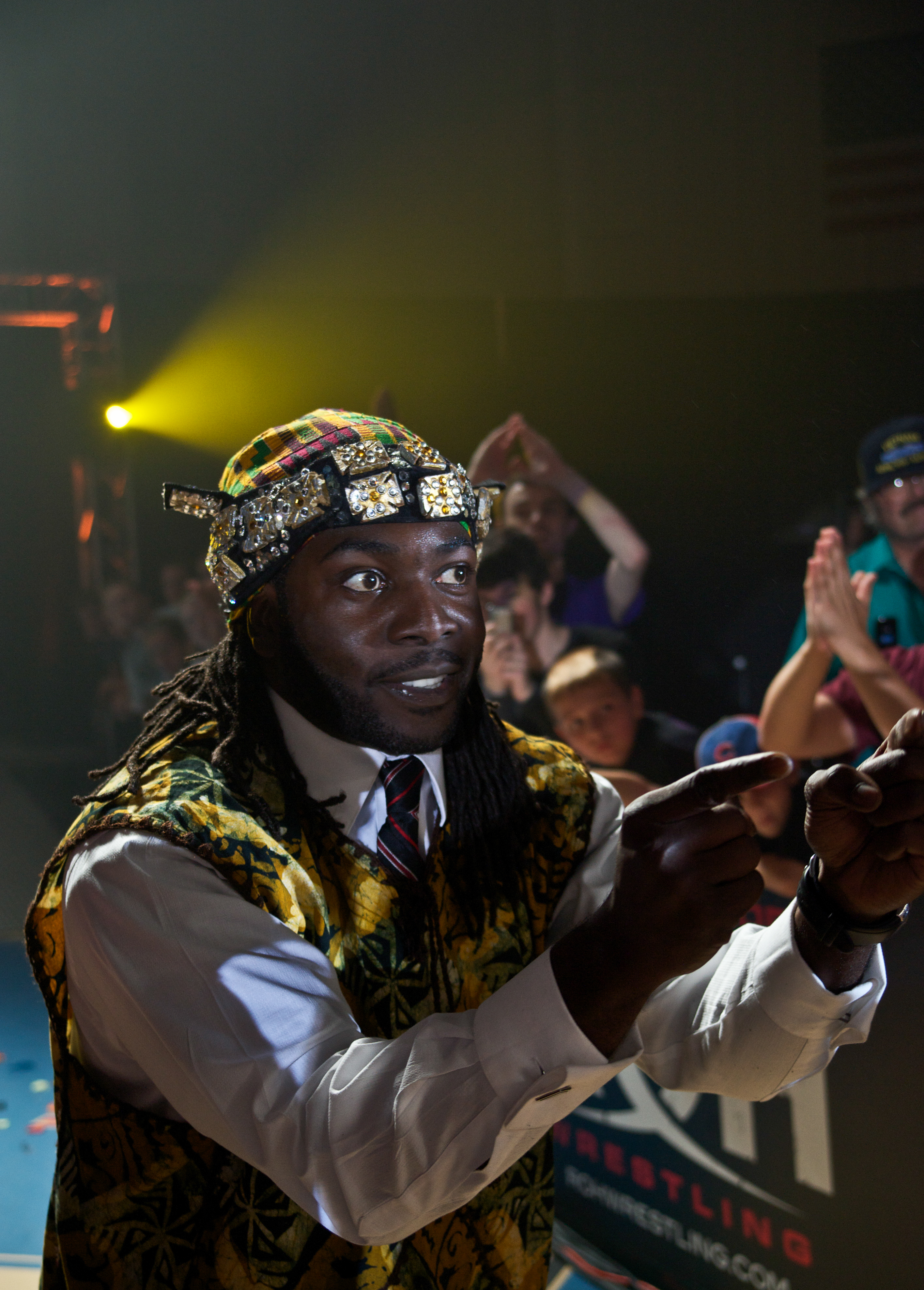 Prince Nana at a Ring of Honor show in 2011. Copyright Wright Way Photography.